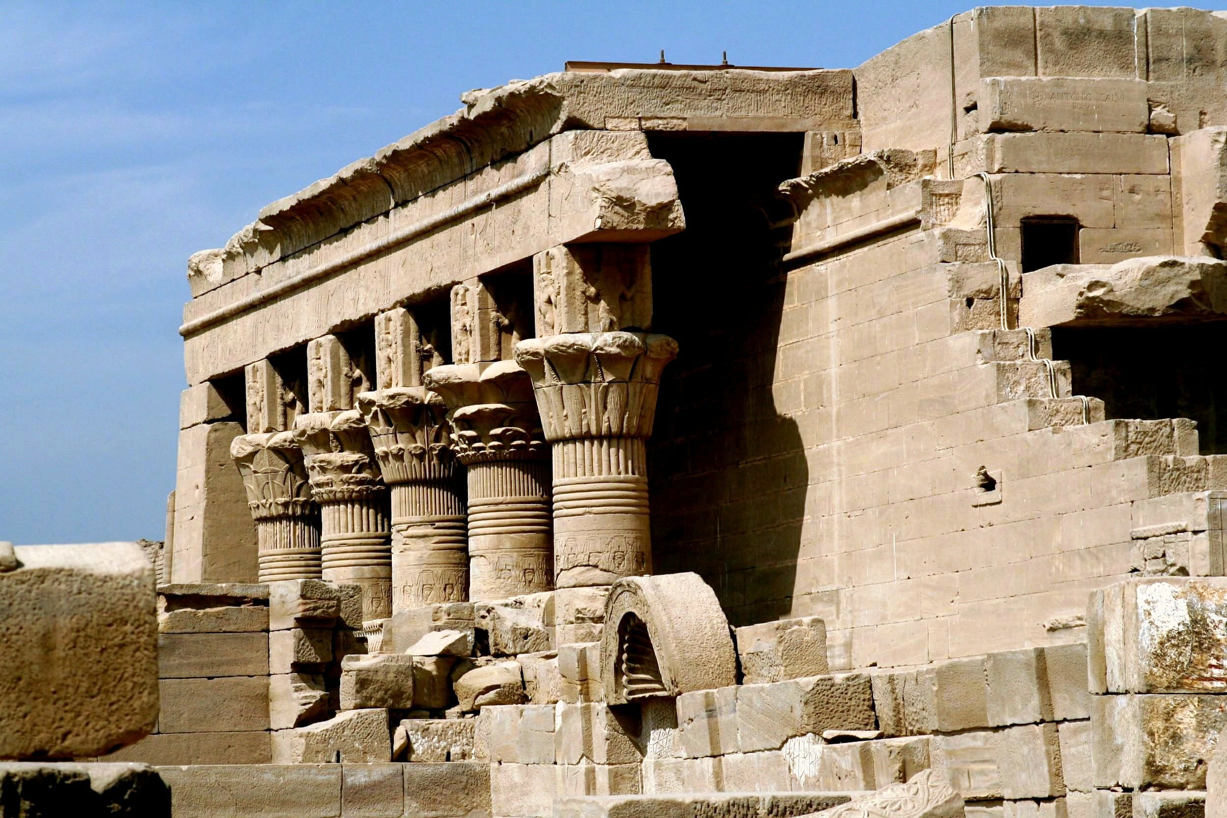 The Temple of Hathor at Dendera